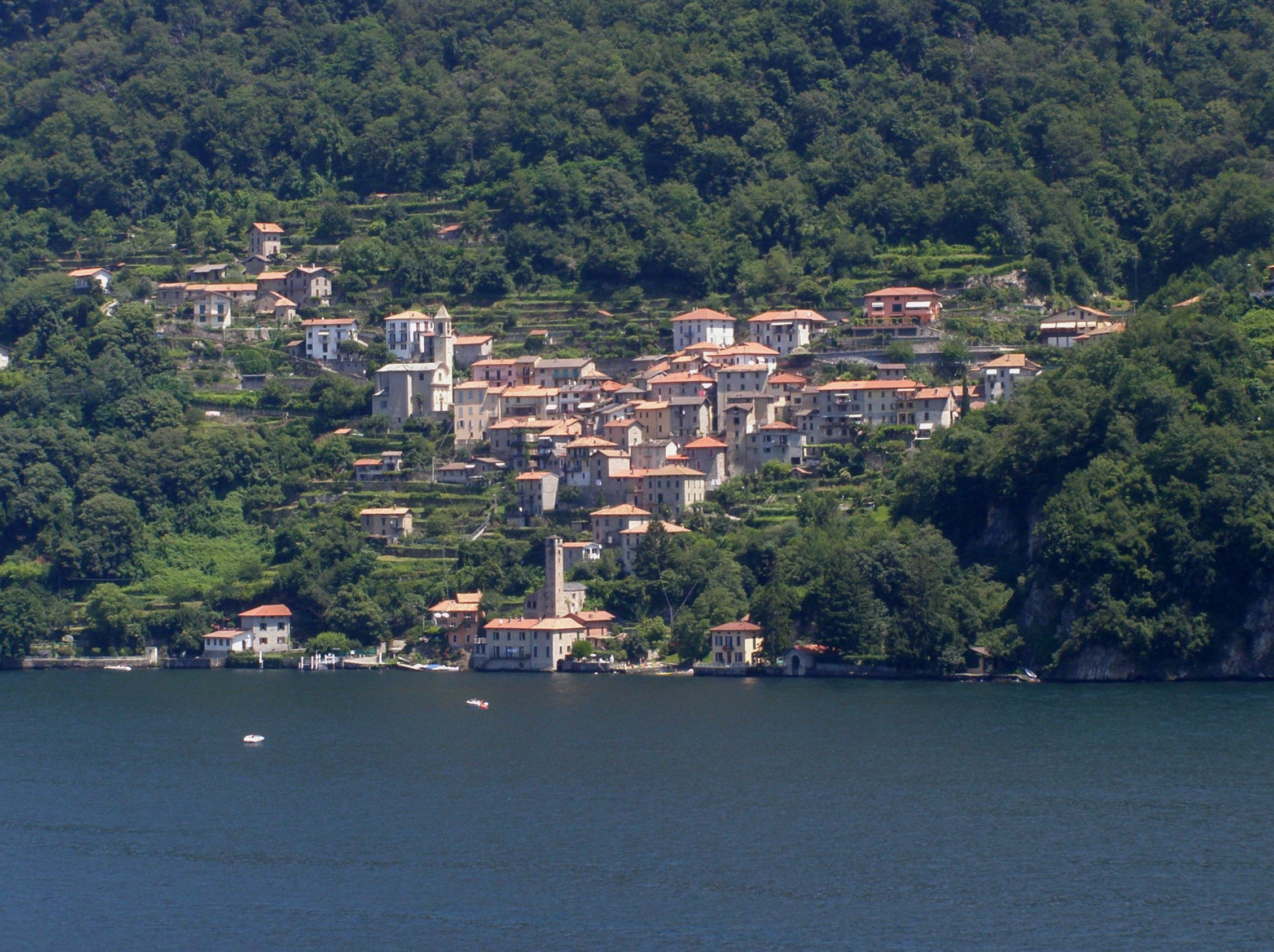 Lake Como, Careno.